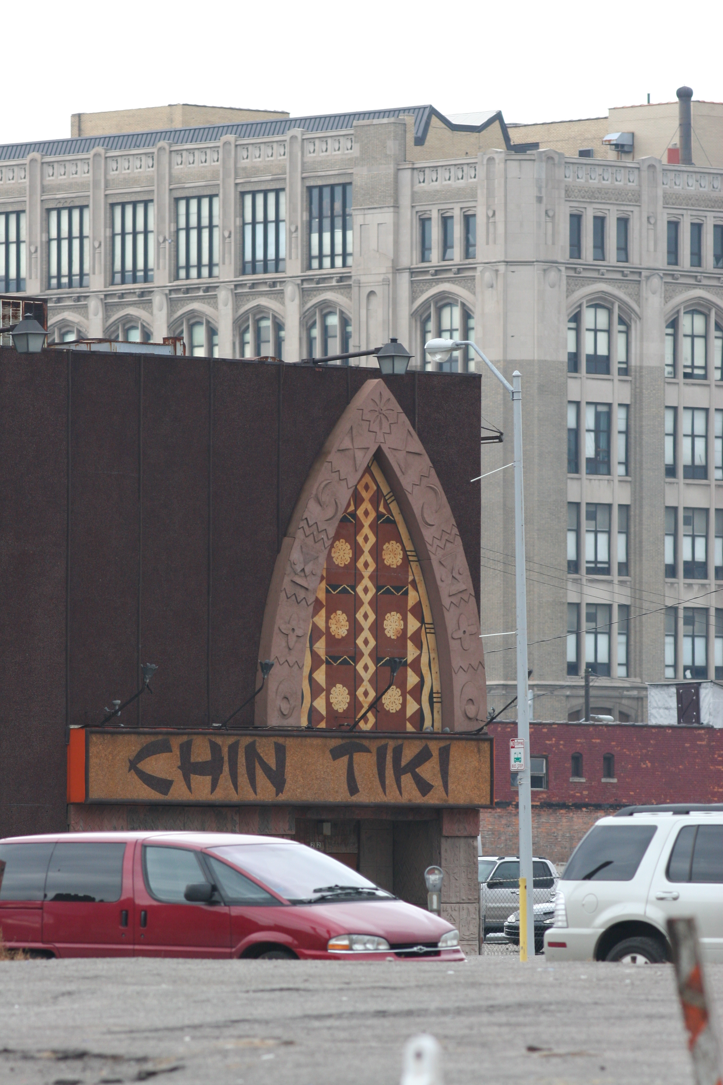 Chin Tiki restaurant, circa 2006.